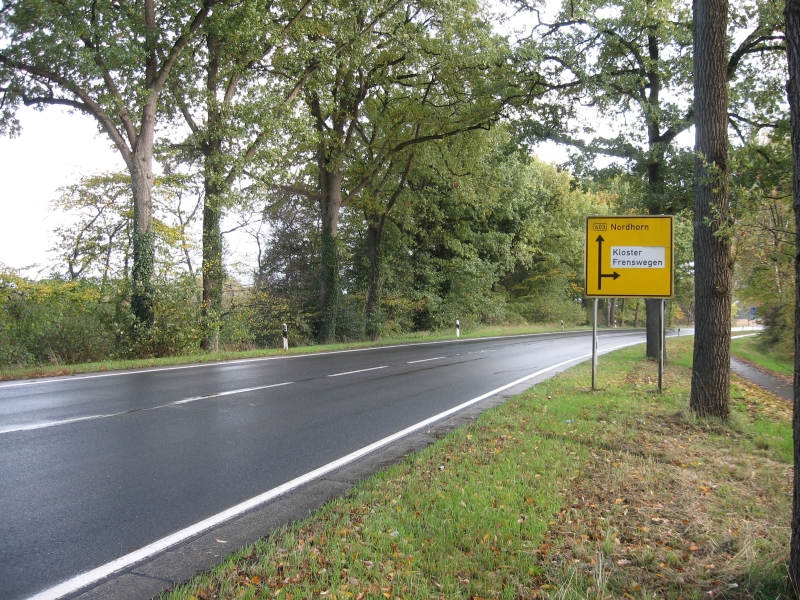 German Federal road no. 403 between Neuenhaus and Nordhorn in Lower Saxony, Germany